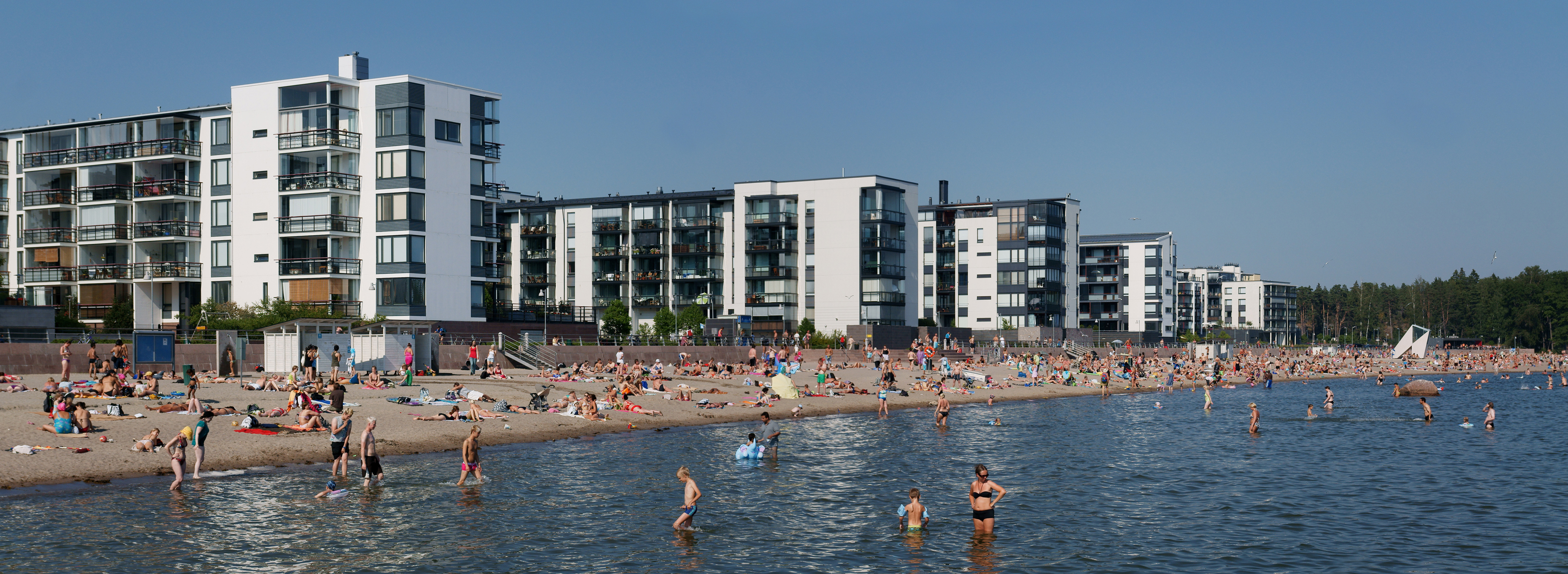 Panorama from Aurinkolahti beach.